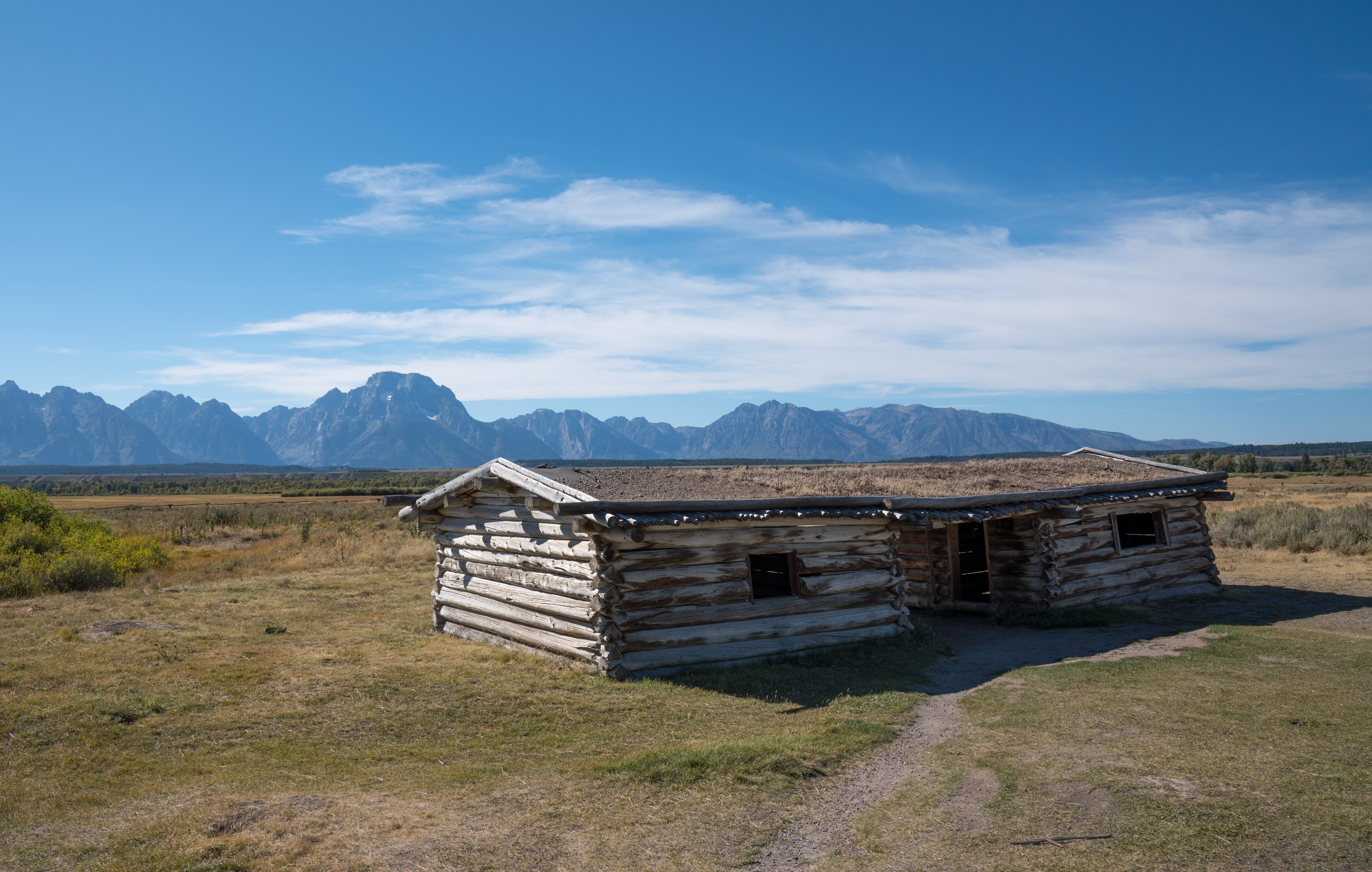 The Cunningham Cabin was built just south of Spread Creek located (inside Grand Teton National Park) by John Pierce Cunningham, who arrived in Jackson Hole in 1885.